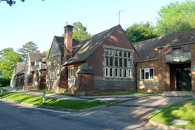 Bradfield College The college buildings are well spread out throughout the village. This is the library, with the entrance to the old chemistry department to the right.